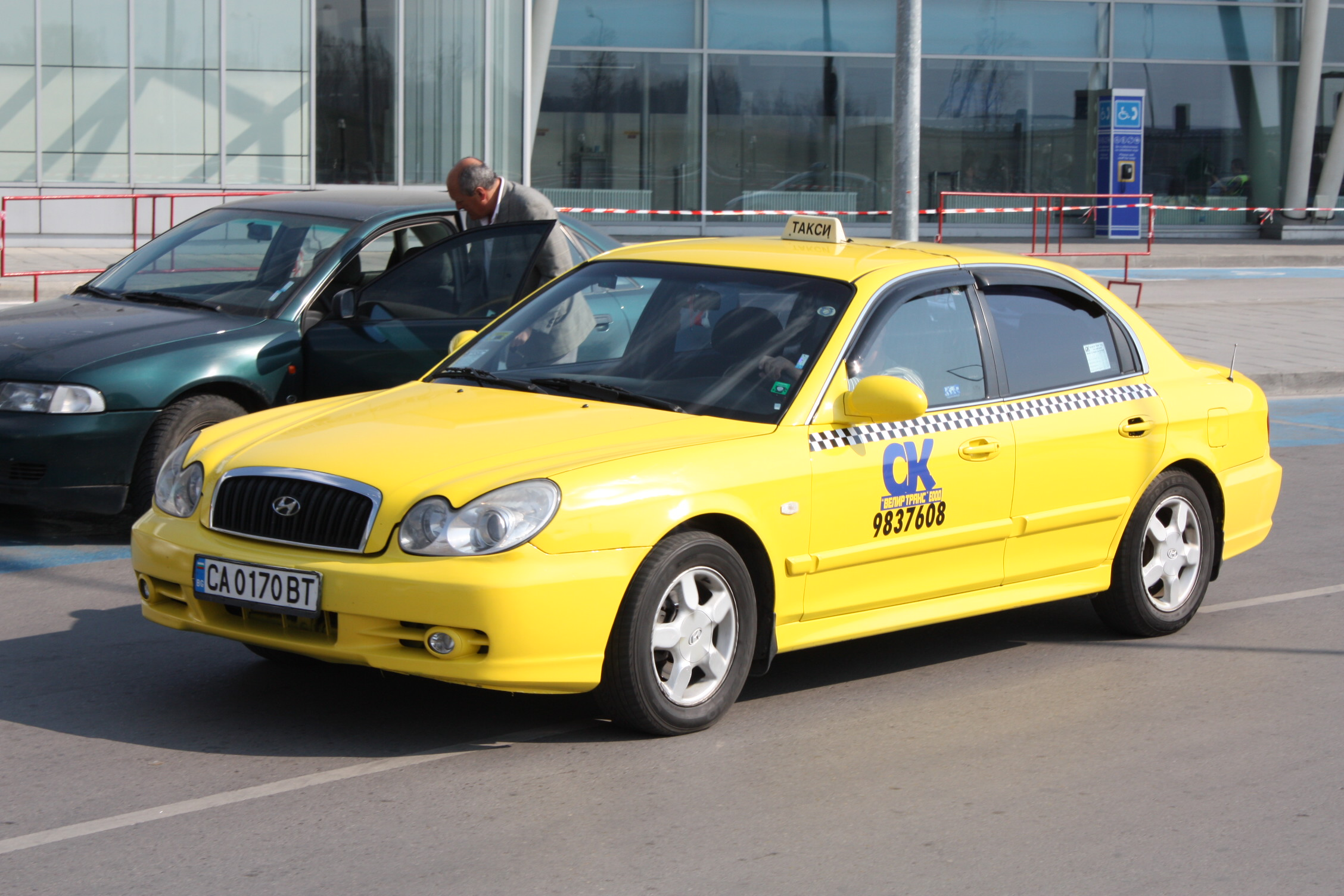 Taxis in Sofia, Bulgaria